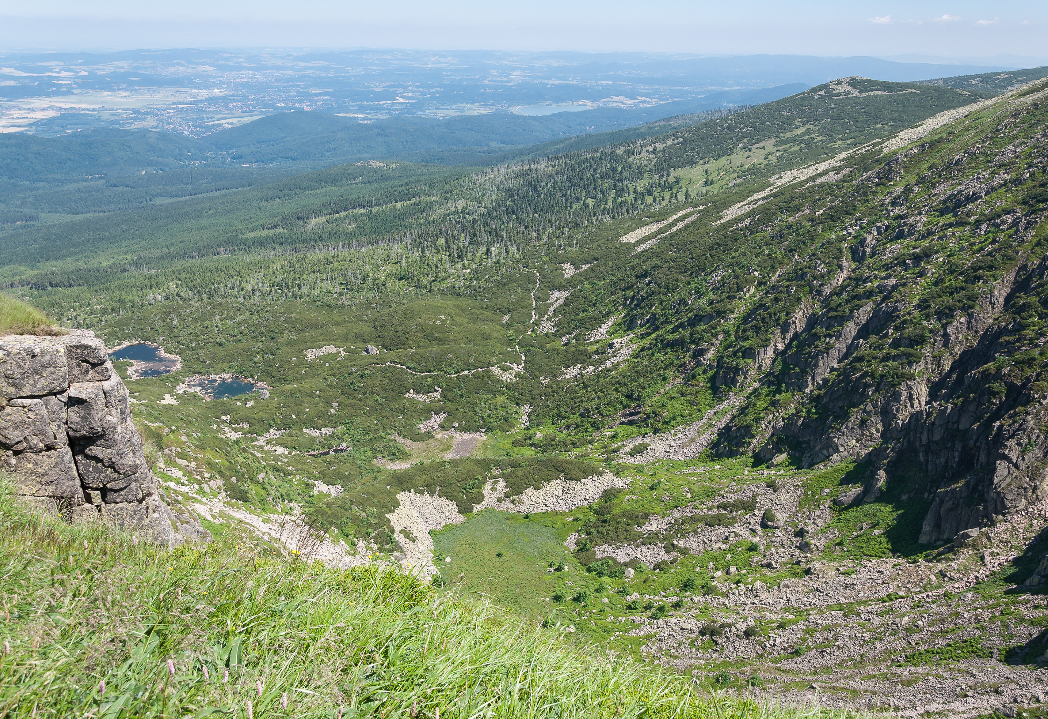 Wielki Śnieżny Kocioł, Karkonosze, Sudetes